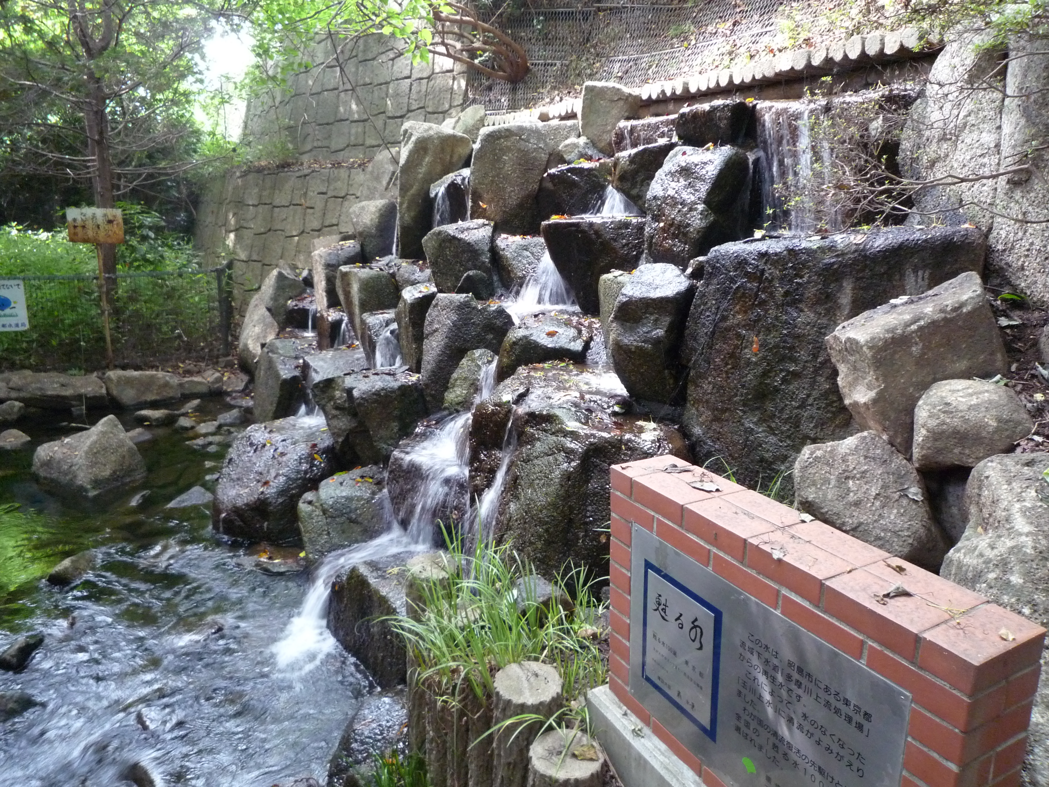 Tamagawa Josui Canal; An artificial source provides water to flow through the metropolis along the Canal.